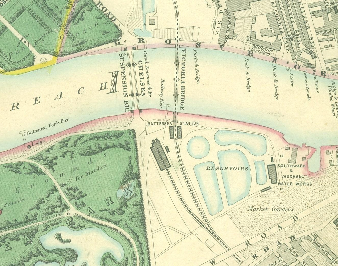 Battersea Park railway station (originally Battersea railway station), London on Stanford's Map